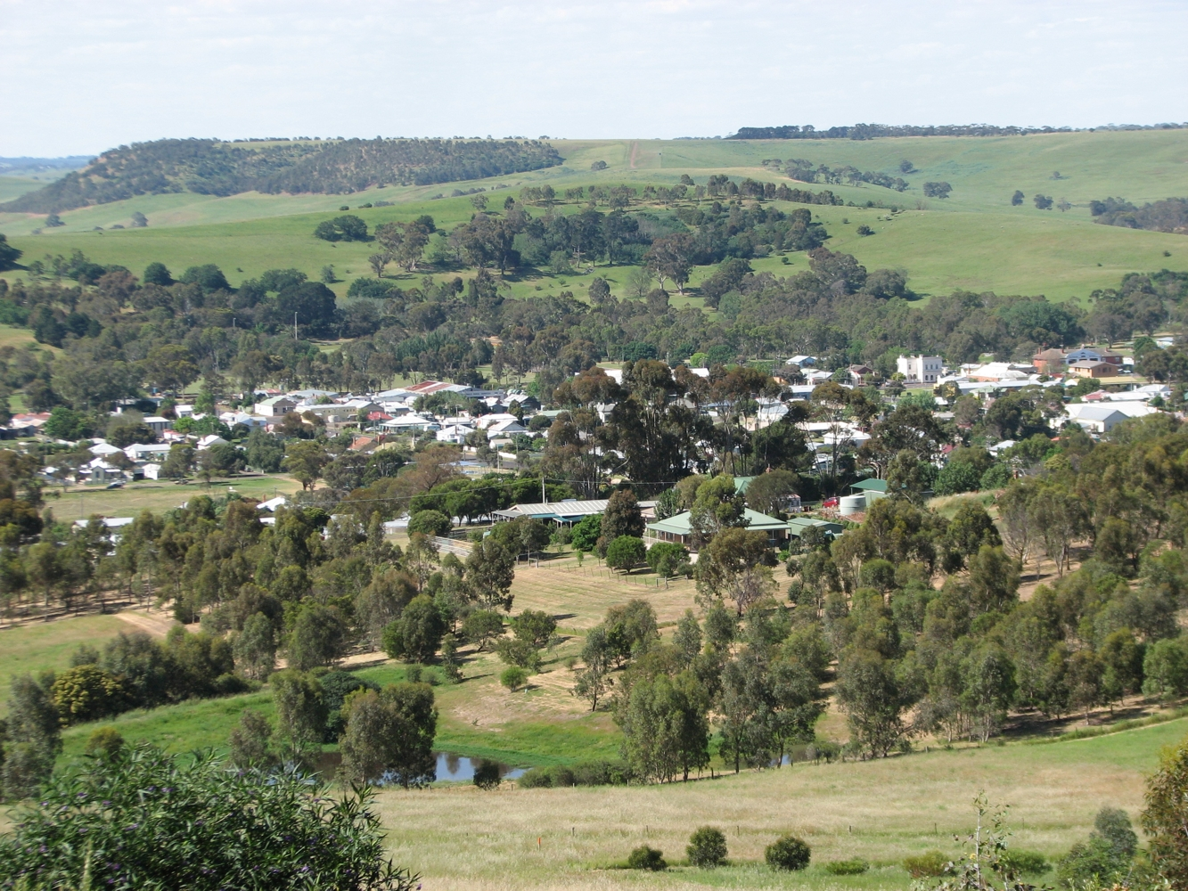 Coleraine, Victoria, Australia. Town as viewed from the Peter Francis Points Arboretum